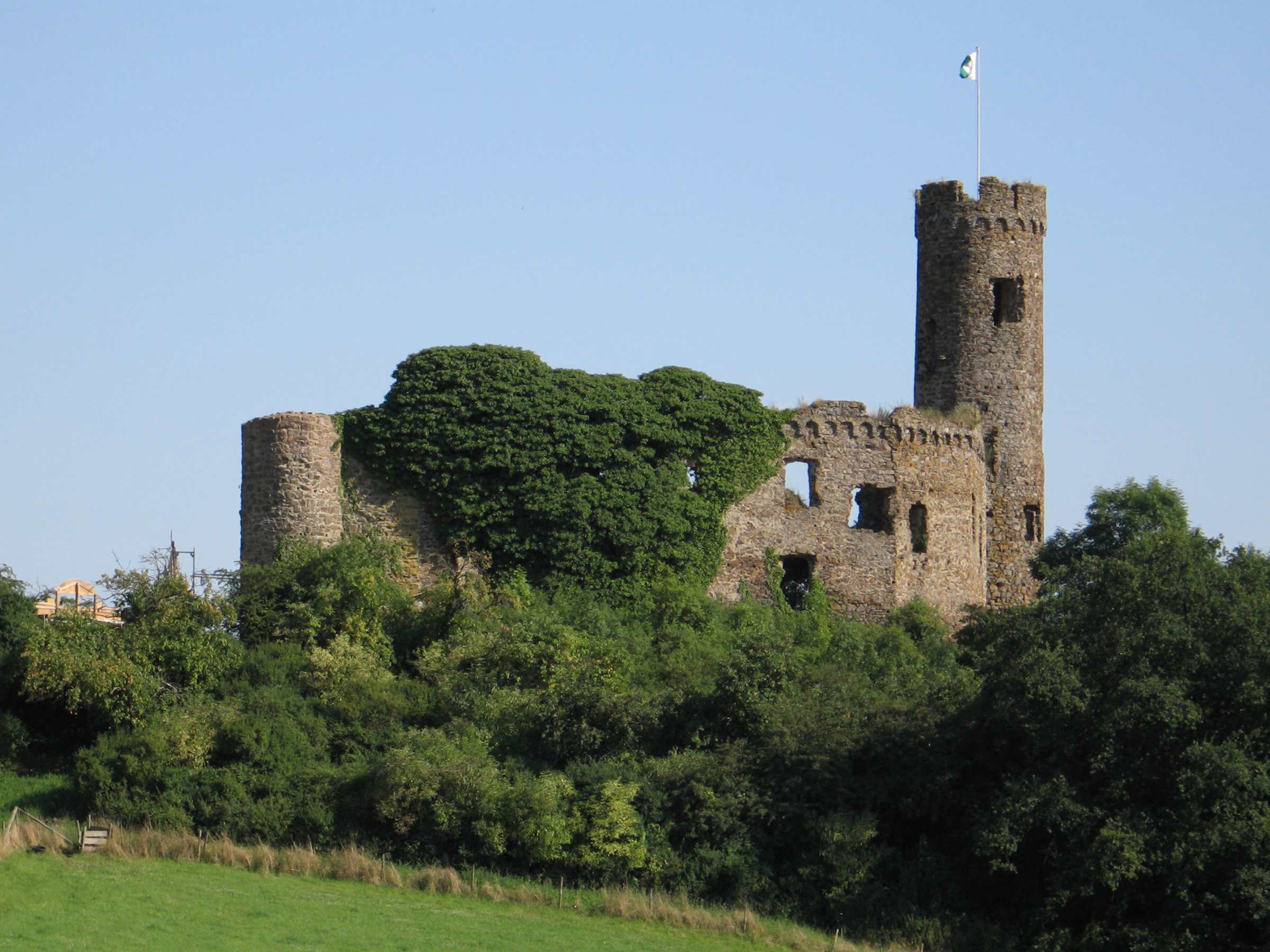 Ardeck castle near Holzheim (Aar), Germany. View from northern-western direction.